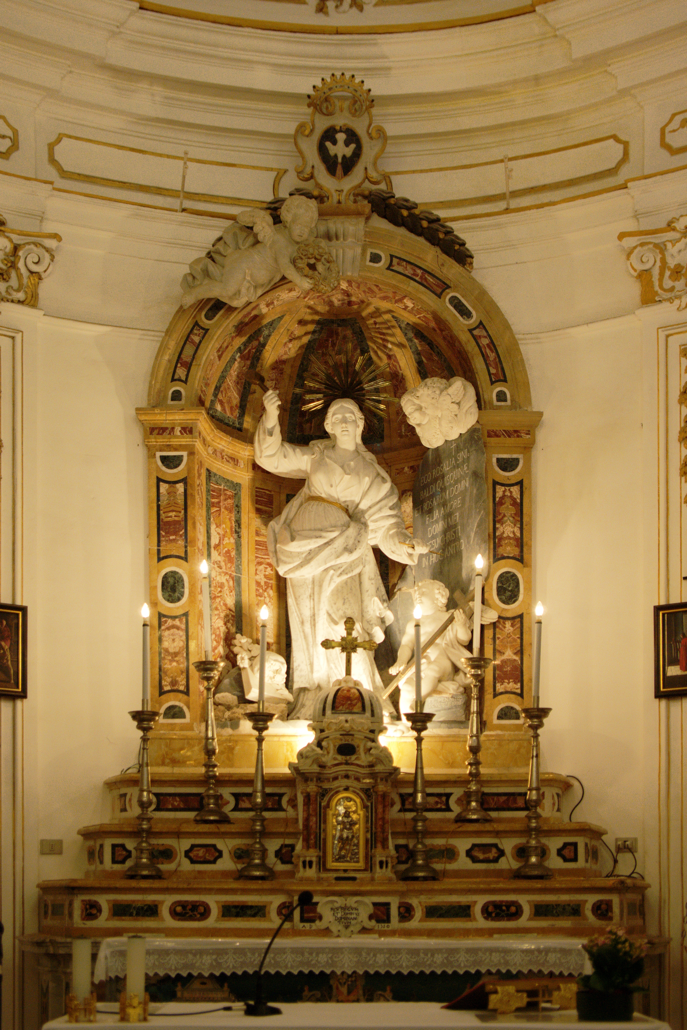 Italy, Sicily, Hermitage of Santa Rosalia: high altar